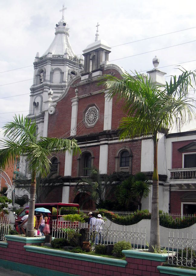 Balanga Cathedral 1